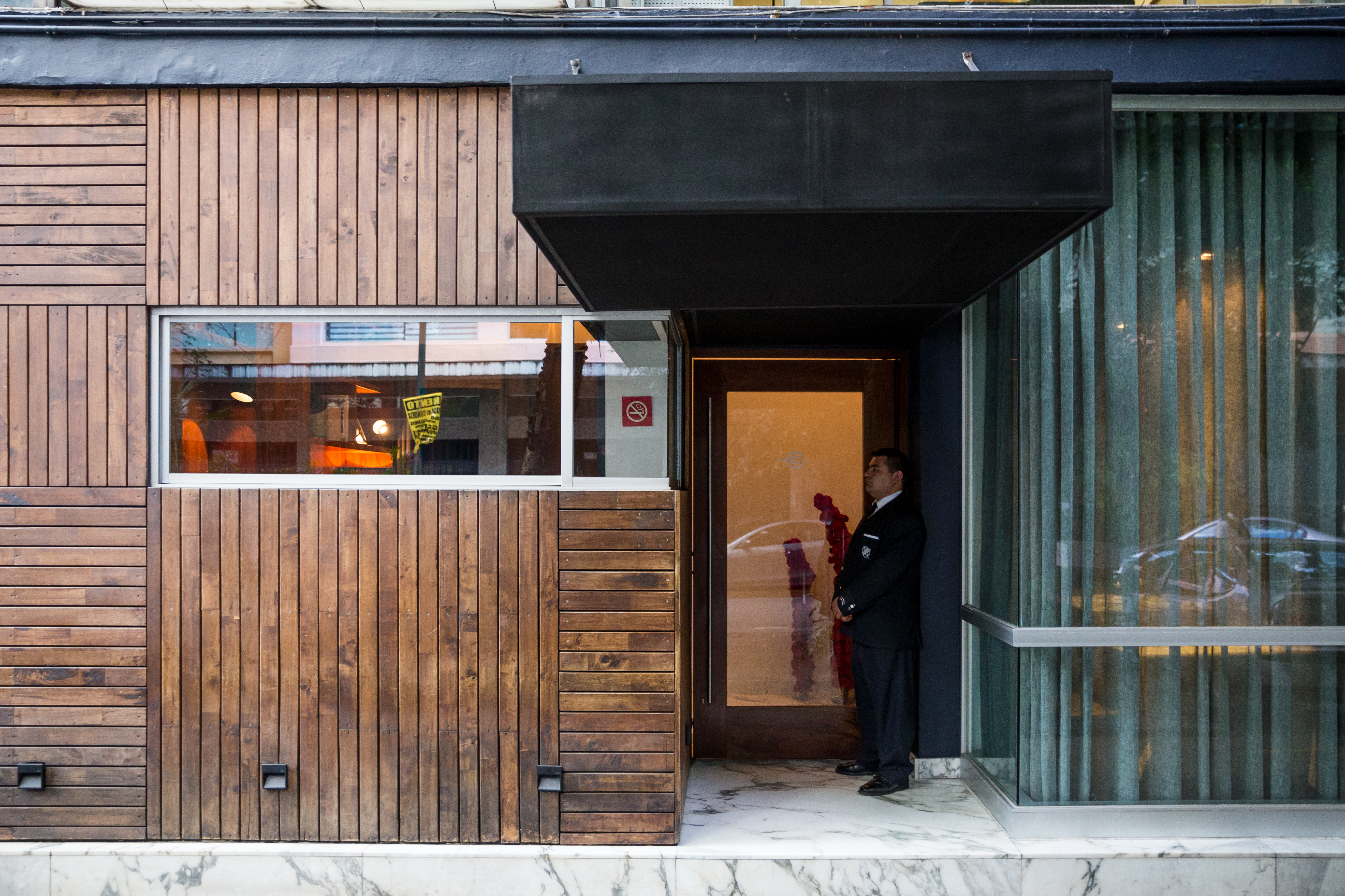 Polanco, Mexico City.